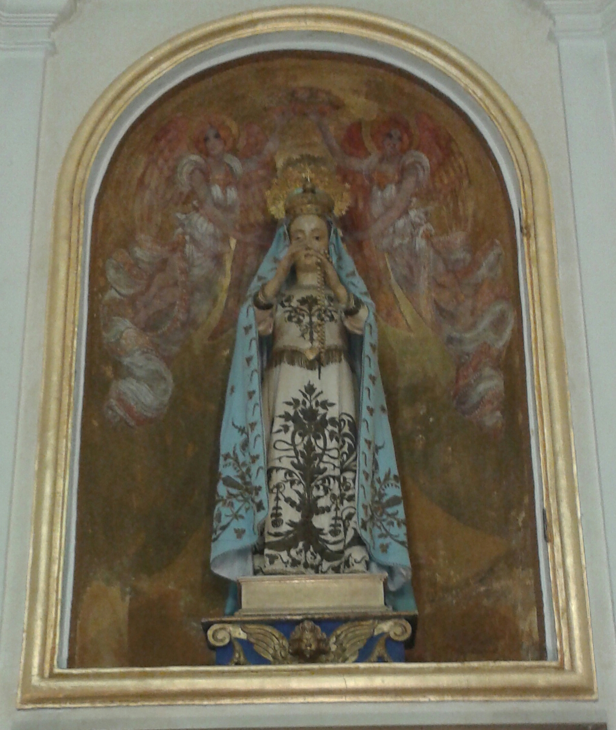 Statua della madonna del rosario